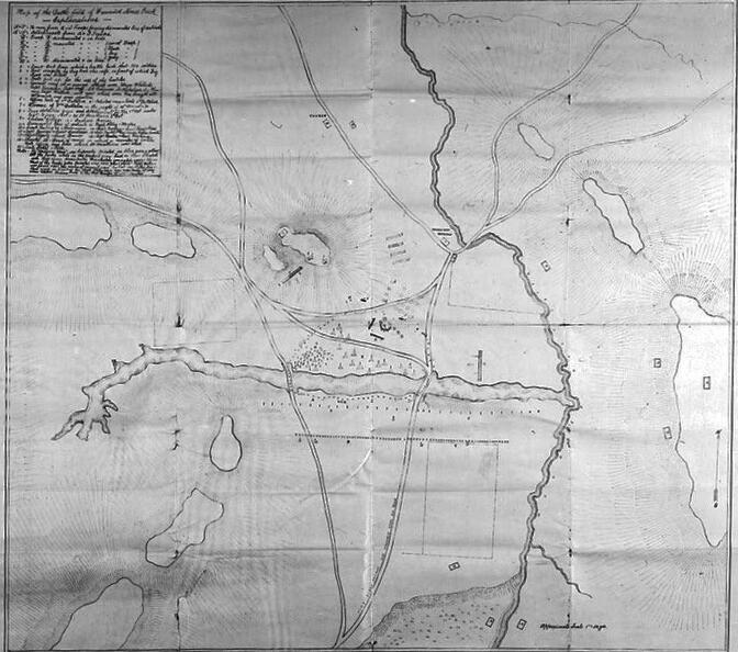 Map of Wounded Knee battlefield scene. Aut: James W. Forsyth (died 1906)